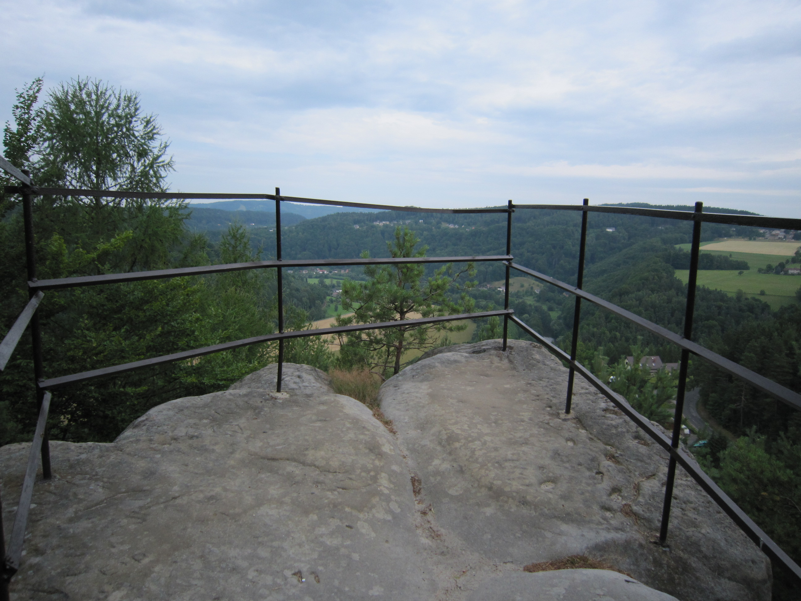 Place of viewpoint.